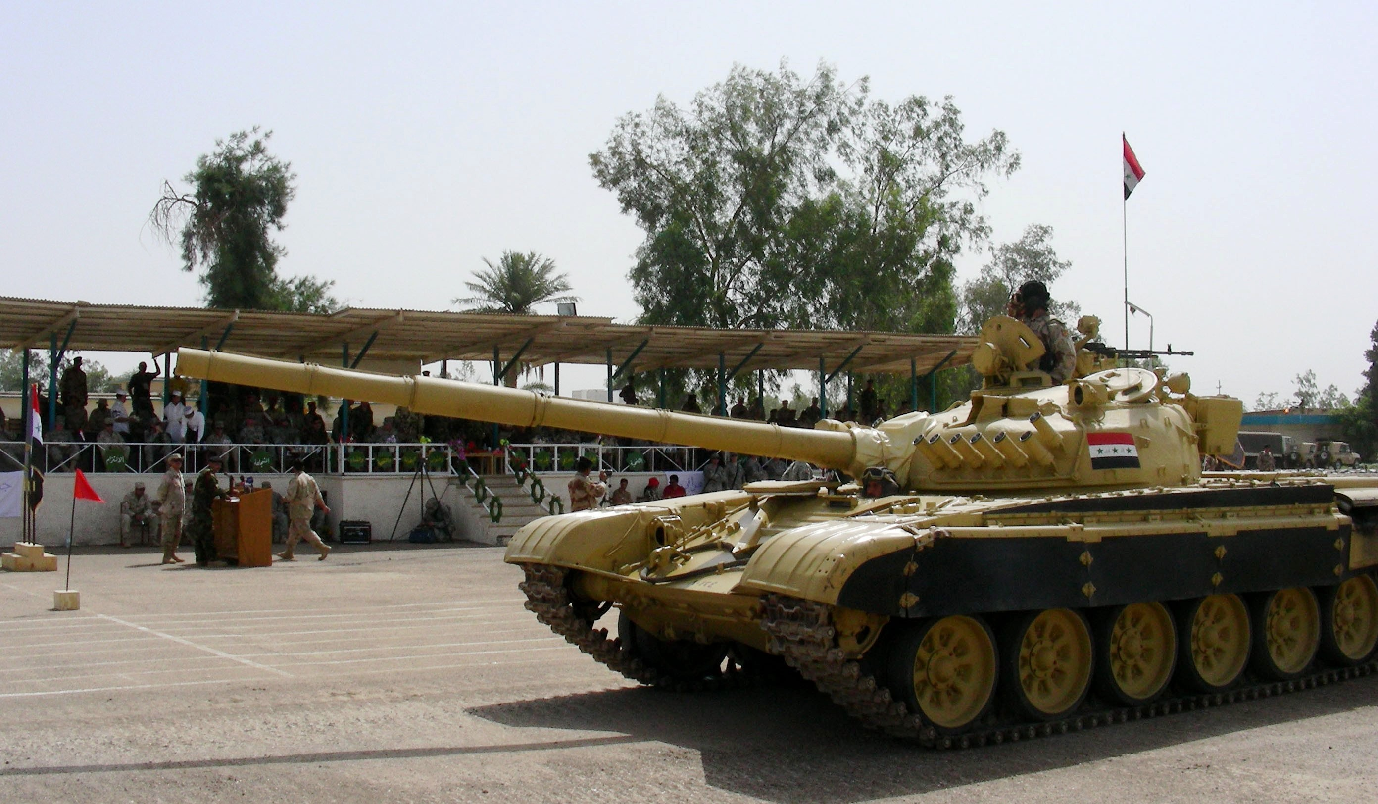 An Iraqi T-72 tank passes in review during a ceremony marking the 2nd Iraqi Brigade's assumption of responsibility at Camp Taji.